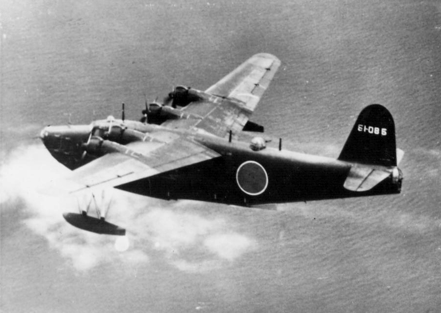 A Japanese Kawanishi H8K (Allied code name "Emily") in flight in July 1944. Seconds later it was shot down by a U.S. Navy Consolidated PB4Y-1 Liberator of Bombing Squadron 115 (VB-115) from which the photo was taken.